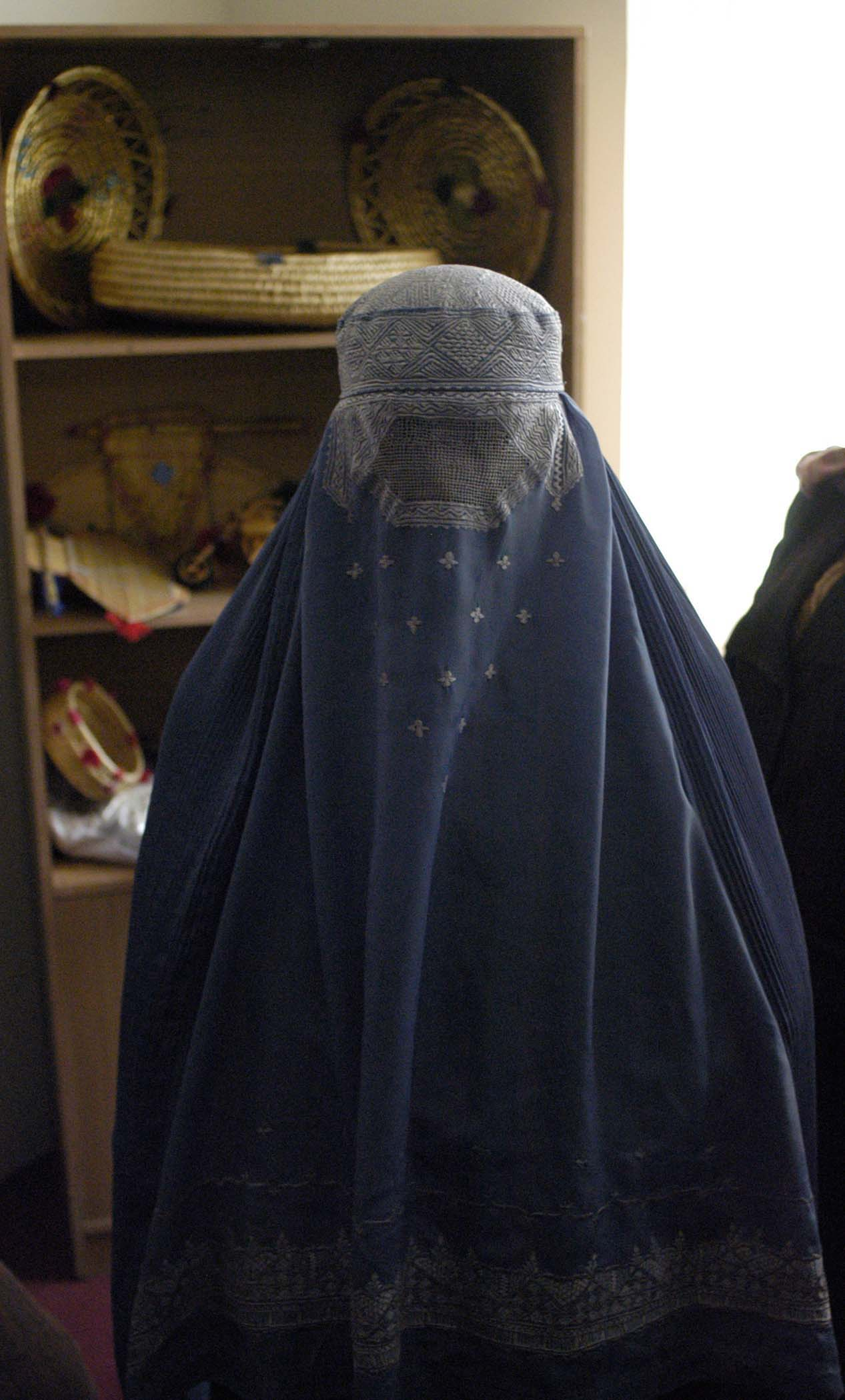 An Afghan woman sells handmade crafts during the opening of a women's shelter in Afghanistan’s Kapisa province Dec. 13, 2007. The Bagram Provincial Reconstruction Team provided more than $86,000 in support of the shelter's construction, which was accomplished by local contractors. Photo by Staff Sgt. Mike Andriacco, USAF